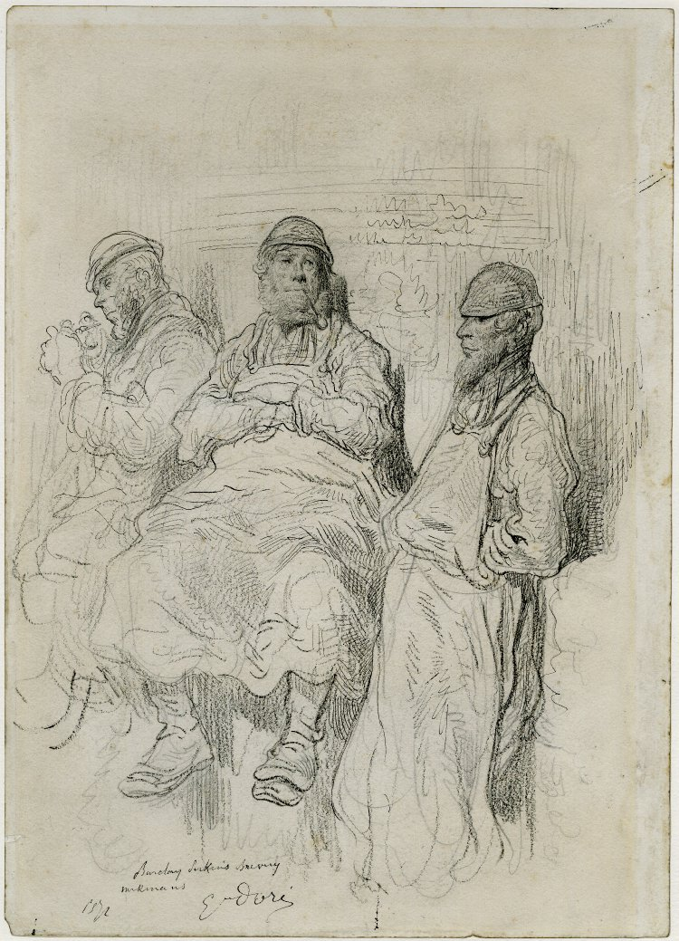 "Workmen at Barclay Perkins's Brewery," pen and grey ink, black chalk and graphite, by the French painter and printmaker Gustave Doré. 357 mm x 258 mm. Courtesy of the British Museum, London.